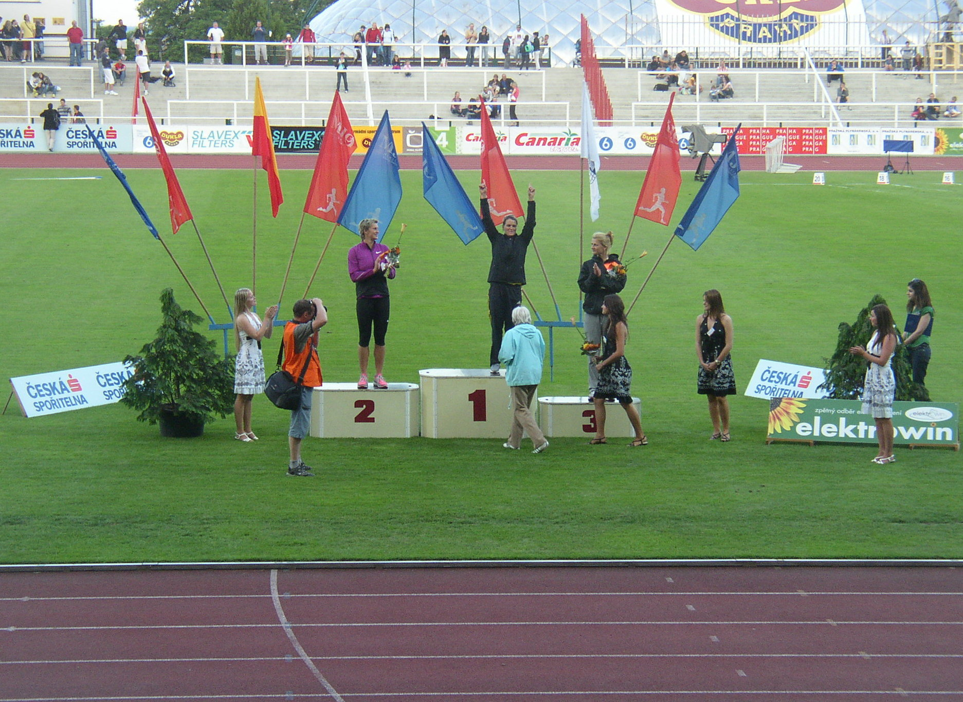 Victory ceremony for women's javelin throw at 17th edition of the Josef Odložil Memorial (EAA Premium Meeting, Na Julisce Stadium, Prague, Czech Republic, 14 June 2010). This was the last ceremony of the whole evening. The winning Sunette Viljoen (South Africa) just has set new continental record of Africa with 66,38m in the round 6, several minutes ago. The current world record holder Barbora Špotáková (Czech Republic) ranked second with 65,71m (also in round 6) while Madara Palameika (Latvia) secured third position with 60,29m (round 1). Former world record holder and Olympic champion of 1952 Dana Zátopková (b. 1922) is just about to present the trophy to Viljoen.